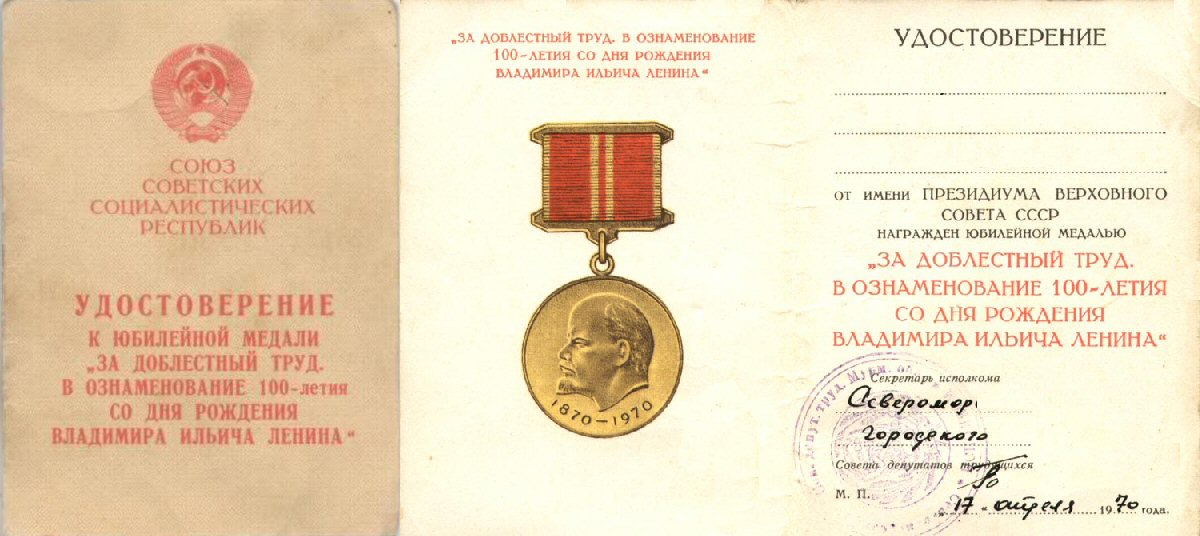 Award document for the Jubilee Medal "For Valiant Labour in Commemoration of the 100th Anniversary since the Birth of Vladimir Il'ich Lenin"